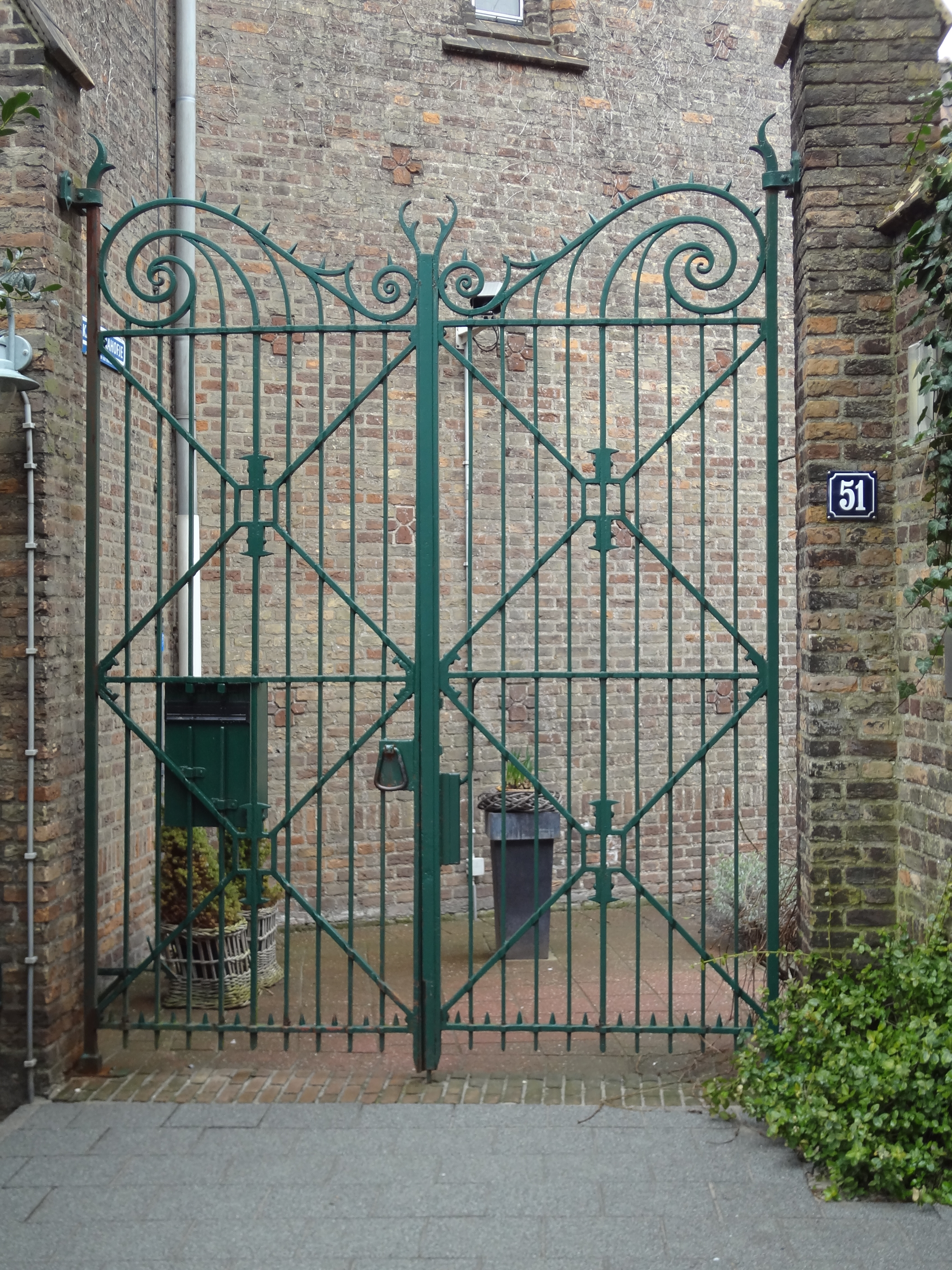 Andreaskerk - Oude Noorden - Rotterdam - Metal fence